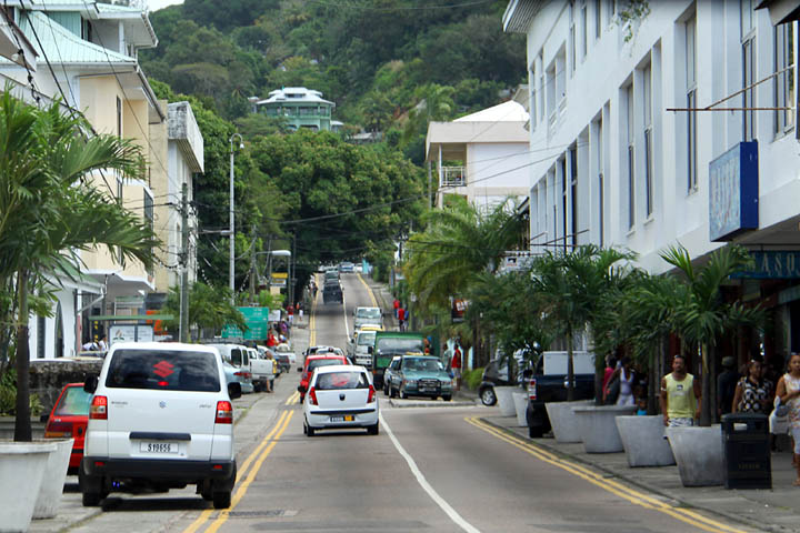 Street in Victoria, Mahé